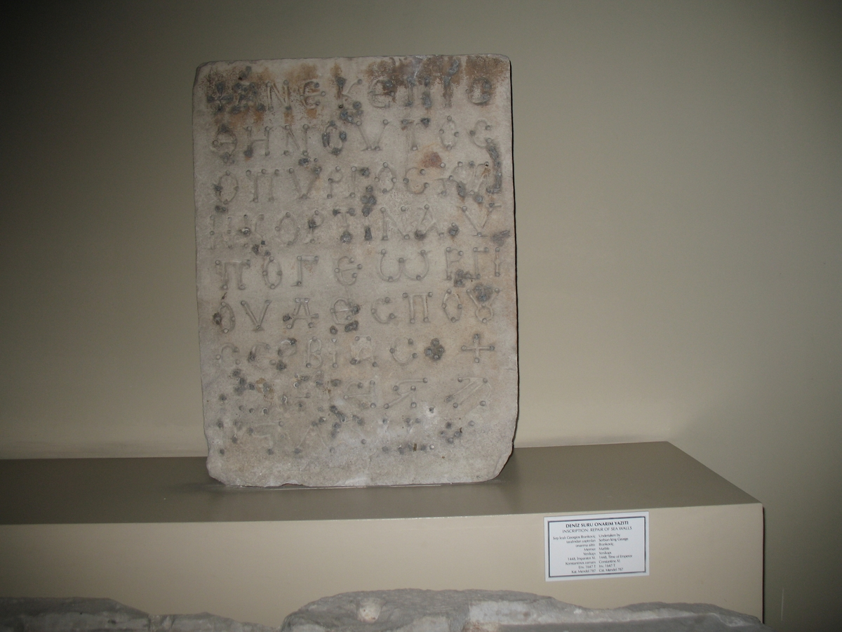 Marble plate of Đurađ Branković about reconstruction of the Walls of Constantinople in 1448,during the reign of Constantine XI, today in Istanbul Archaeological Museum.